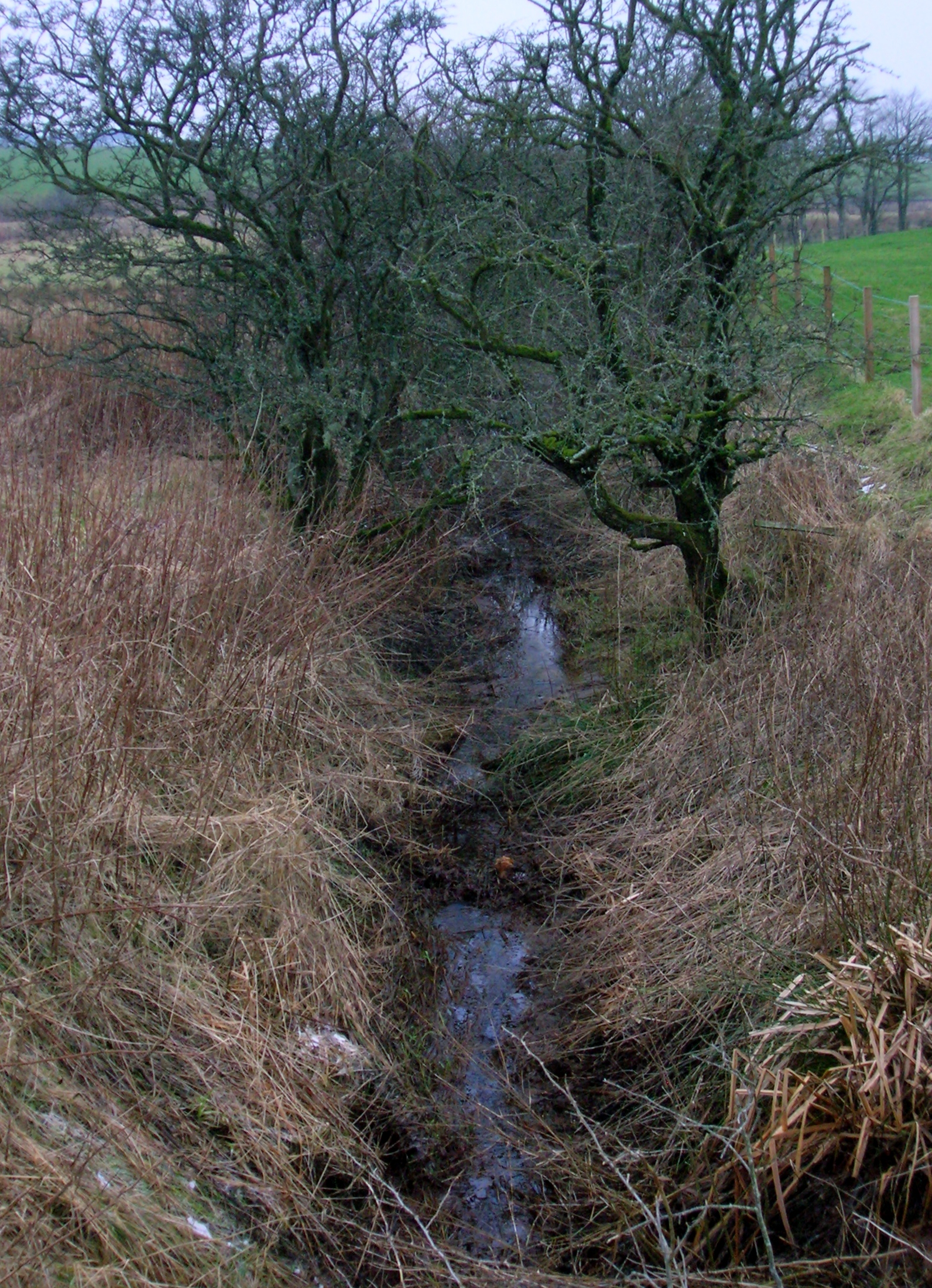 The lade from the Black Loch running to old Borland Mill, New Cumnock, East Ayrshire, Scotland.